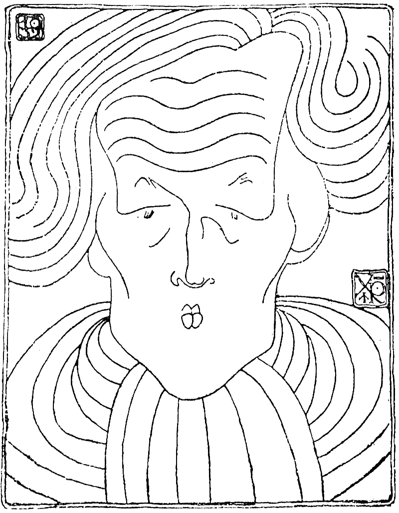 Self-portrait/caricature of Victor Ion Popa, Romanian writer actor, scenographer, and illustrator.